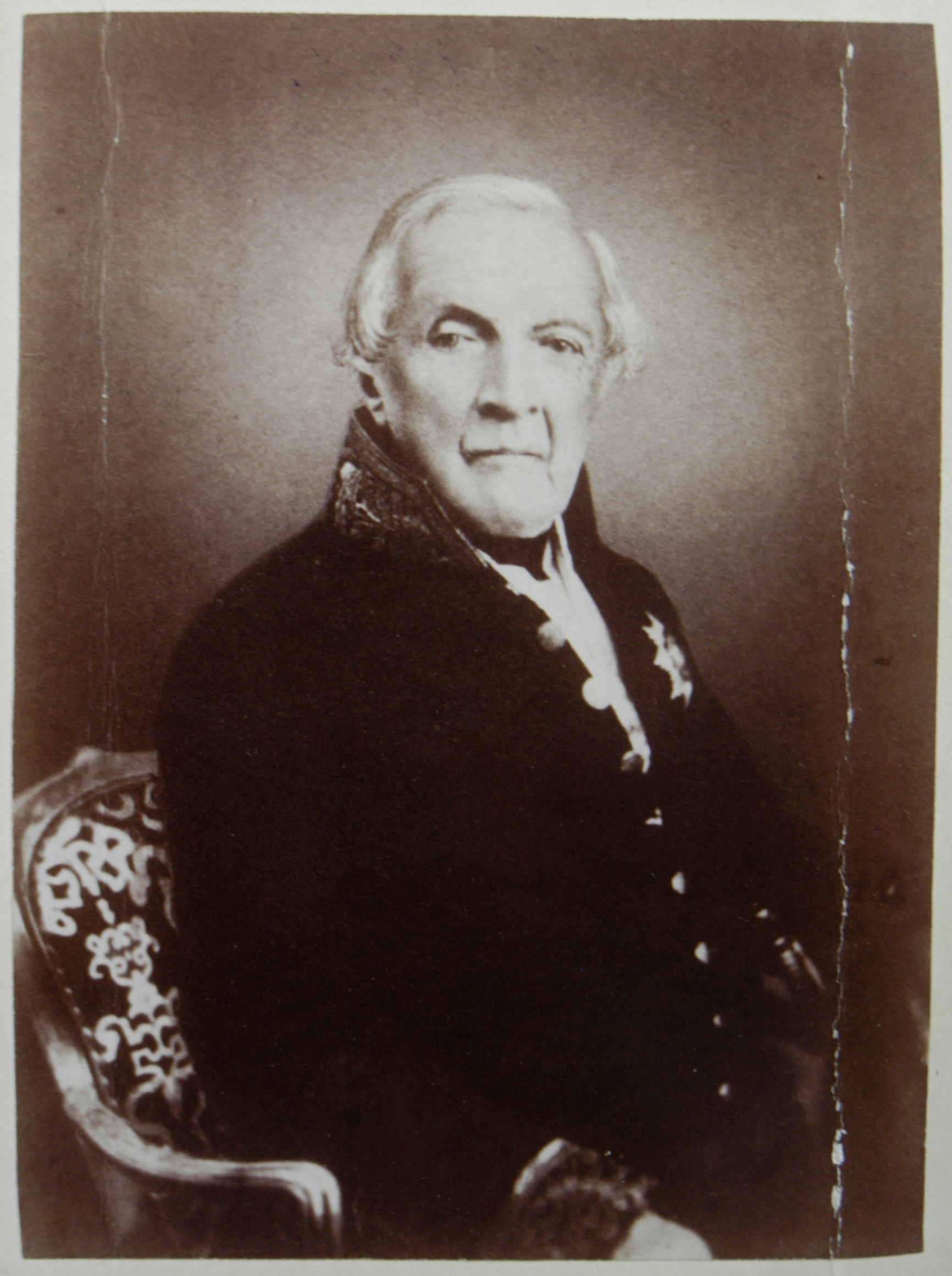 Photo of a photo of a photo: Graf Johann, aka John, Count de Salis-Soglio-Bondo (Chiavenna 1776 - Modena 1855) of Bondo; schloss Sulzberg, S.Gallen; Avers; Unterer Spaniol, Chur; younger son of 3rd Count de Salis. Statesman & Grisons envoy. President of the Gotteshausbund in 1817. Catholic from February 1807. He married (Chur, 13 or 19 July 1831 or 32) Grafin Emilia Elisabetha (1804-1875), (a Sternkreuz-Ordens-Dame & Oberhofmeisterin (lady-in-waiting) of Archduchesses Thereses and Beatrice von Oesterreich-Este), daughter of Feldzugmeister Graf Franz Simon Fidelis Rudolf von Salis-Zizers. An English barrister, Grisons statesman and Minister to Archdukes Francis IV and Francis V of Modena.